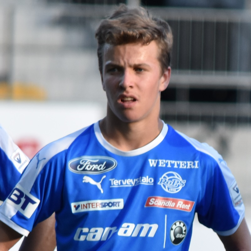 Association football player Veka Pyyny (RoPS)